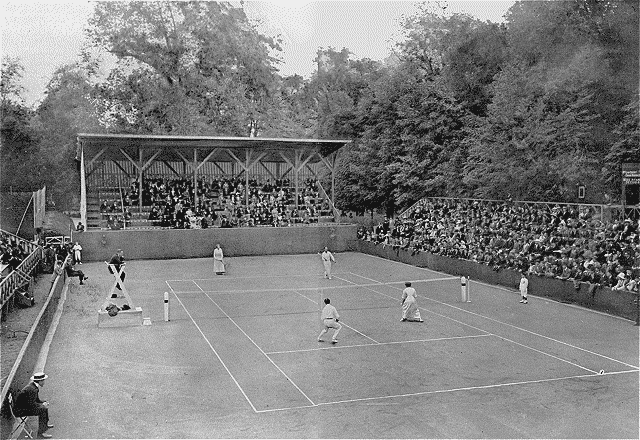 A mixed doubles at the 1913 World Hardcourt Championships at Paris. Miss de Csesery (Hungary) and Max Décugis vs. Craig Biddle (USA) and Elizabeth Ryan (USA).